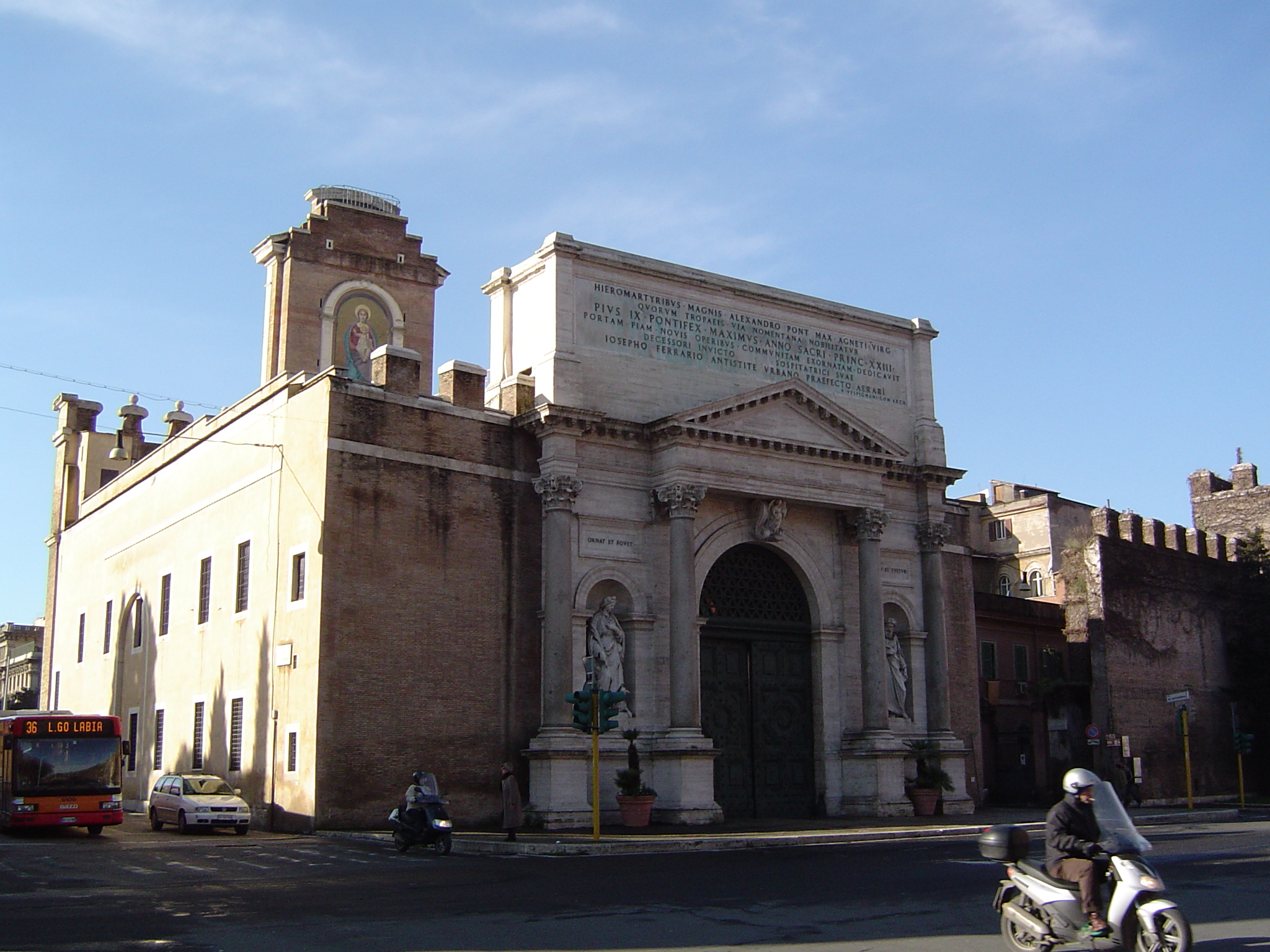 Porta Pia, front view Made by Joris van Rooden, the Netherlands on 03-01-2006